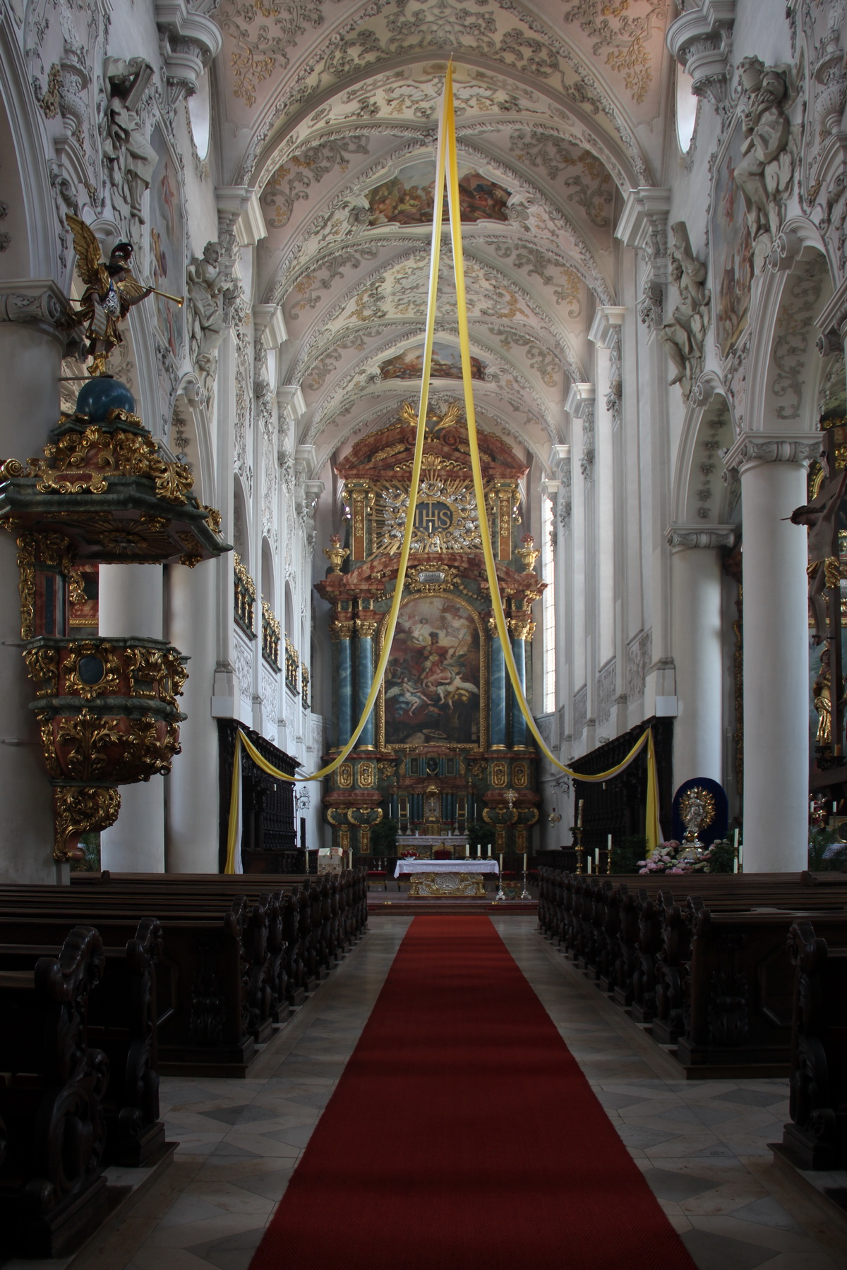 Church of St. George, Amberg Native nameSt. Georgkirche, AmbergLocationAmberg, GermanyCoordinates49° 26′ 38.12″ N, 11° 51′ 00.36″ E